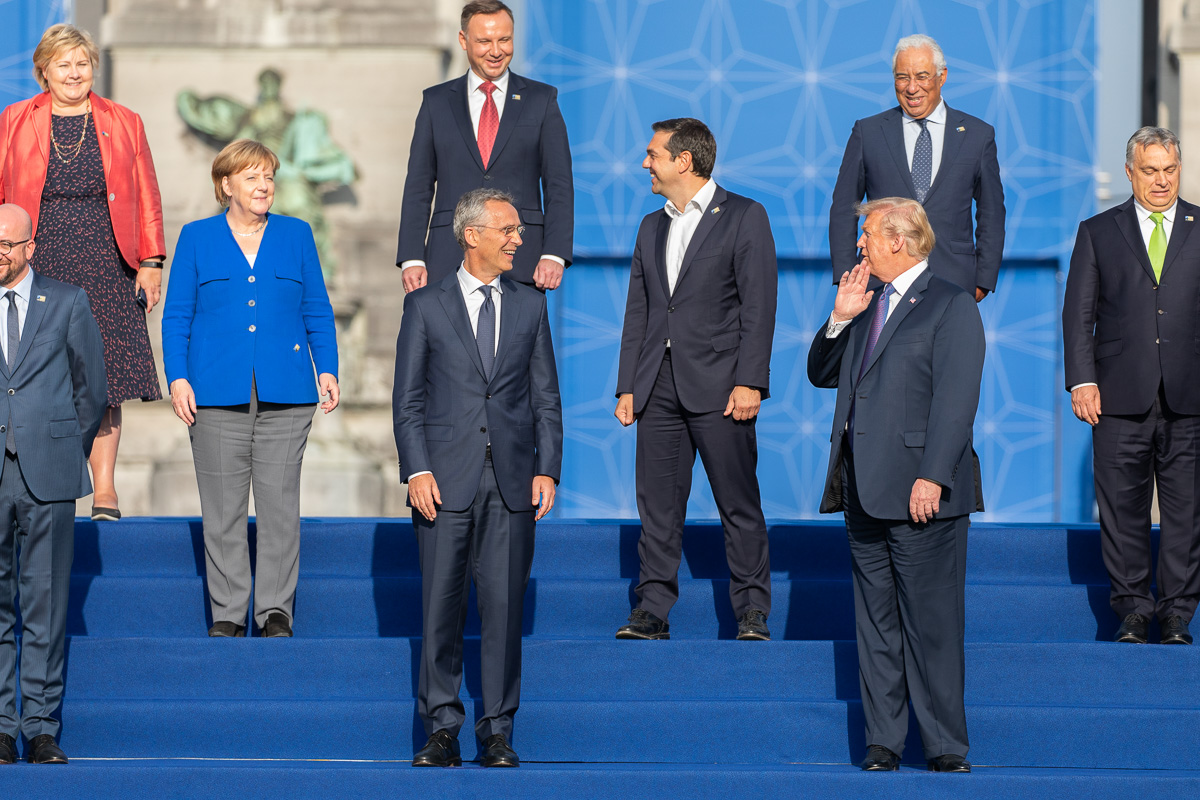 President Donald J. Trump and Secretary General Jens Stoltenberg during a NATO family photo.